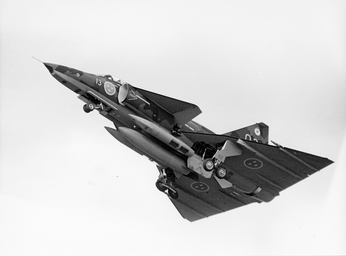 A Saab SF 37 Viggen (no. 37951) in the air over airbase F 13 Bråvalla.